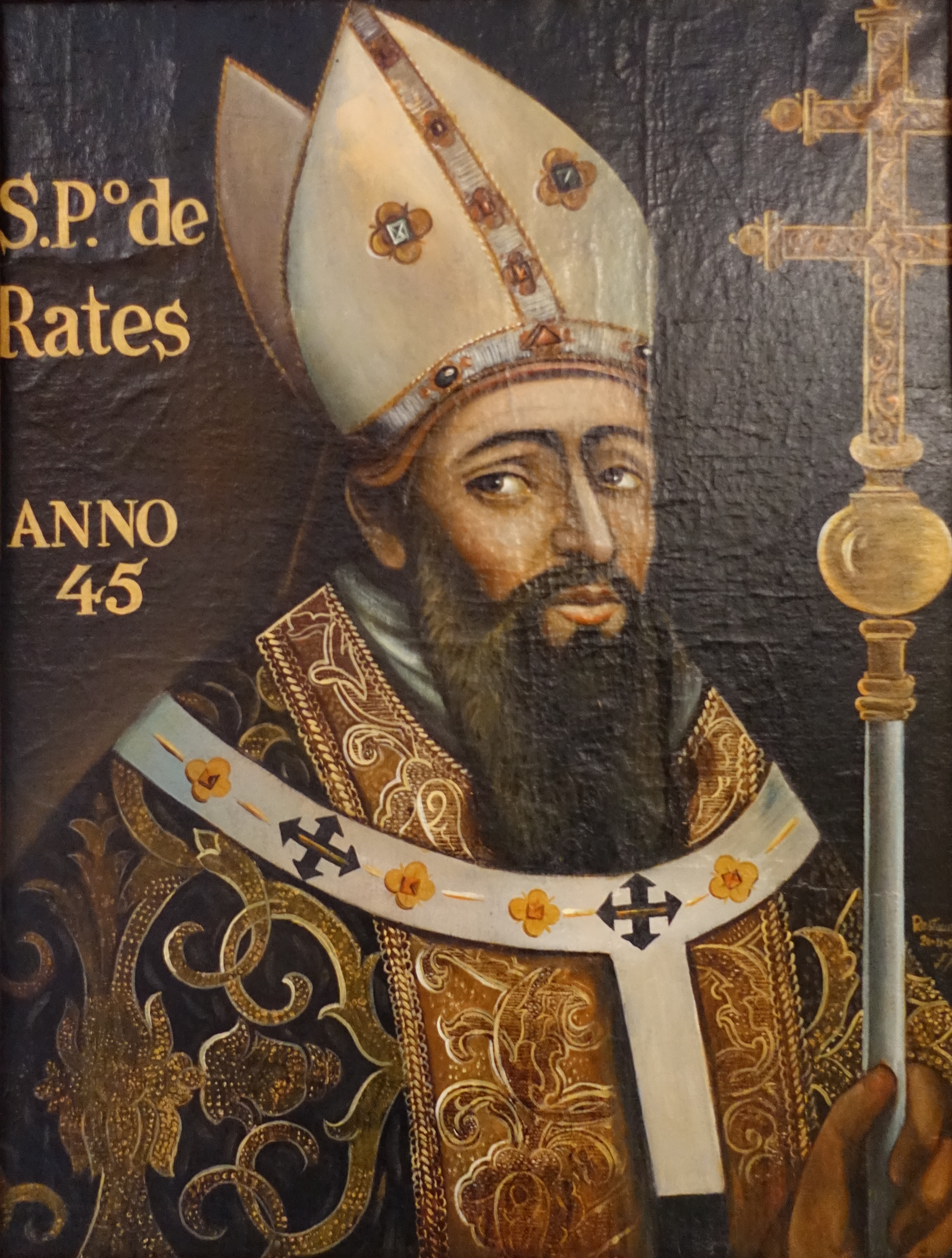 Archbishops Gallery in Braga, Portugal